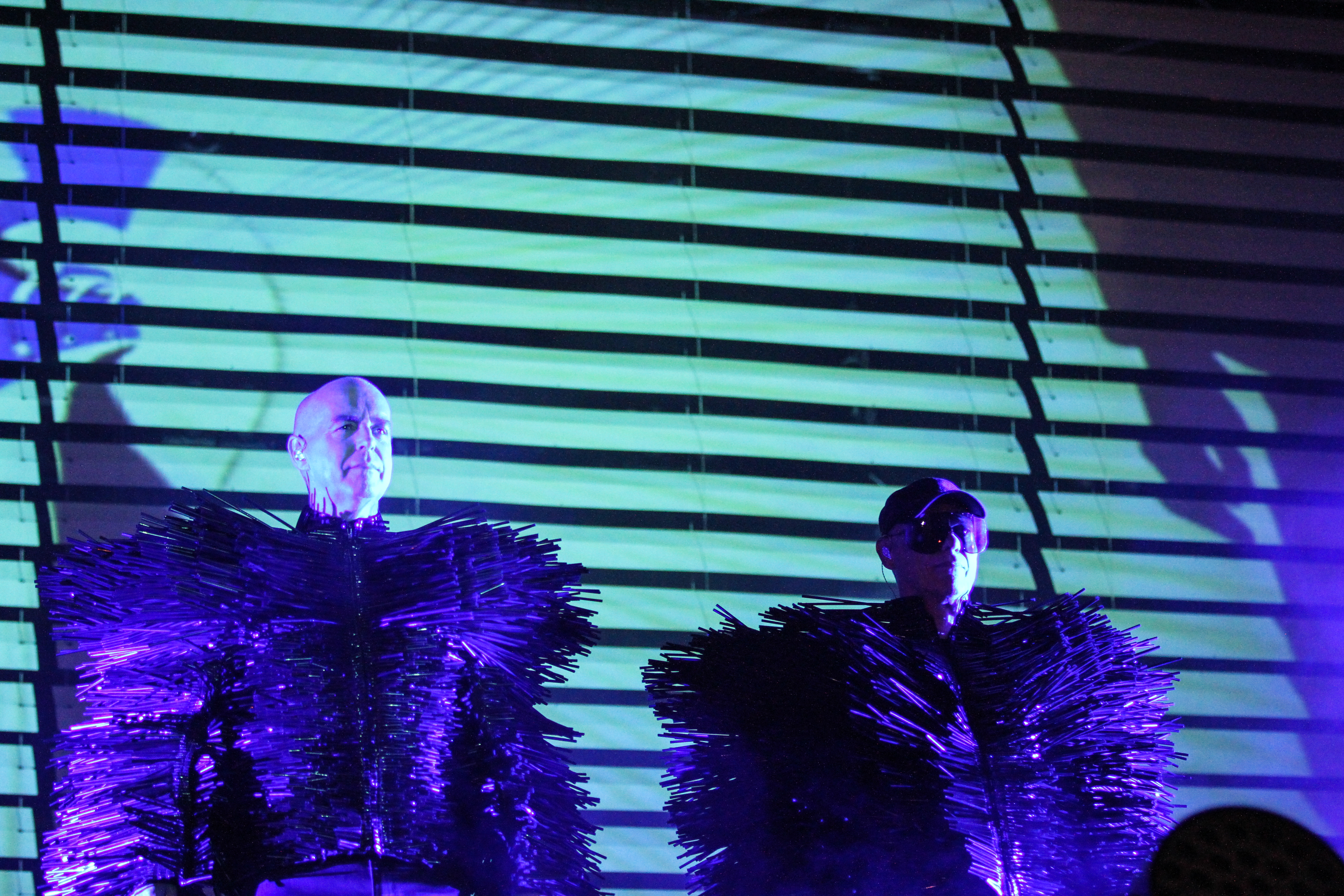 Pet Shop Boys performing at Berlin Festival 2013